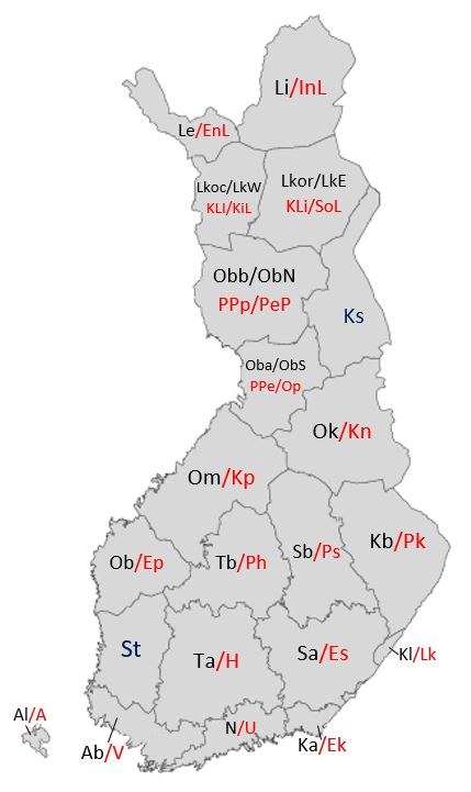 The picture is a fourth version of this map, in this picture the map is more accurate and the caption is added in Finnish alongside the useful caption in Latin.